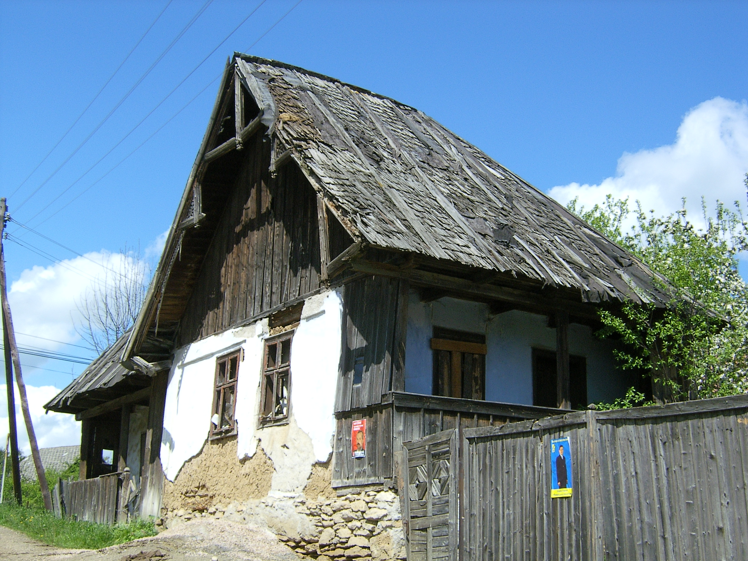 Old building in Călăţea; Bihor County